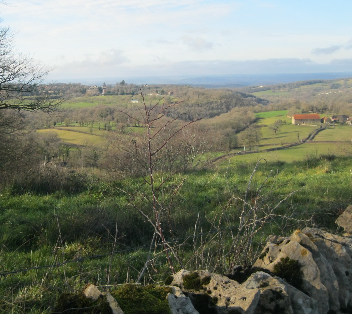 Alvignac (Lot, France). Landscape seen from highest point called Causse-Nu in the NW direction.